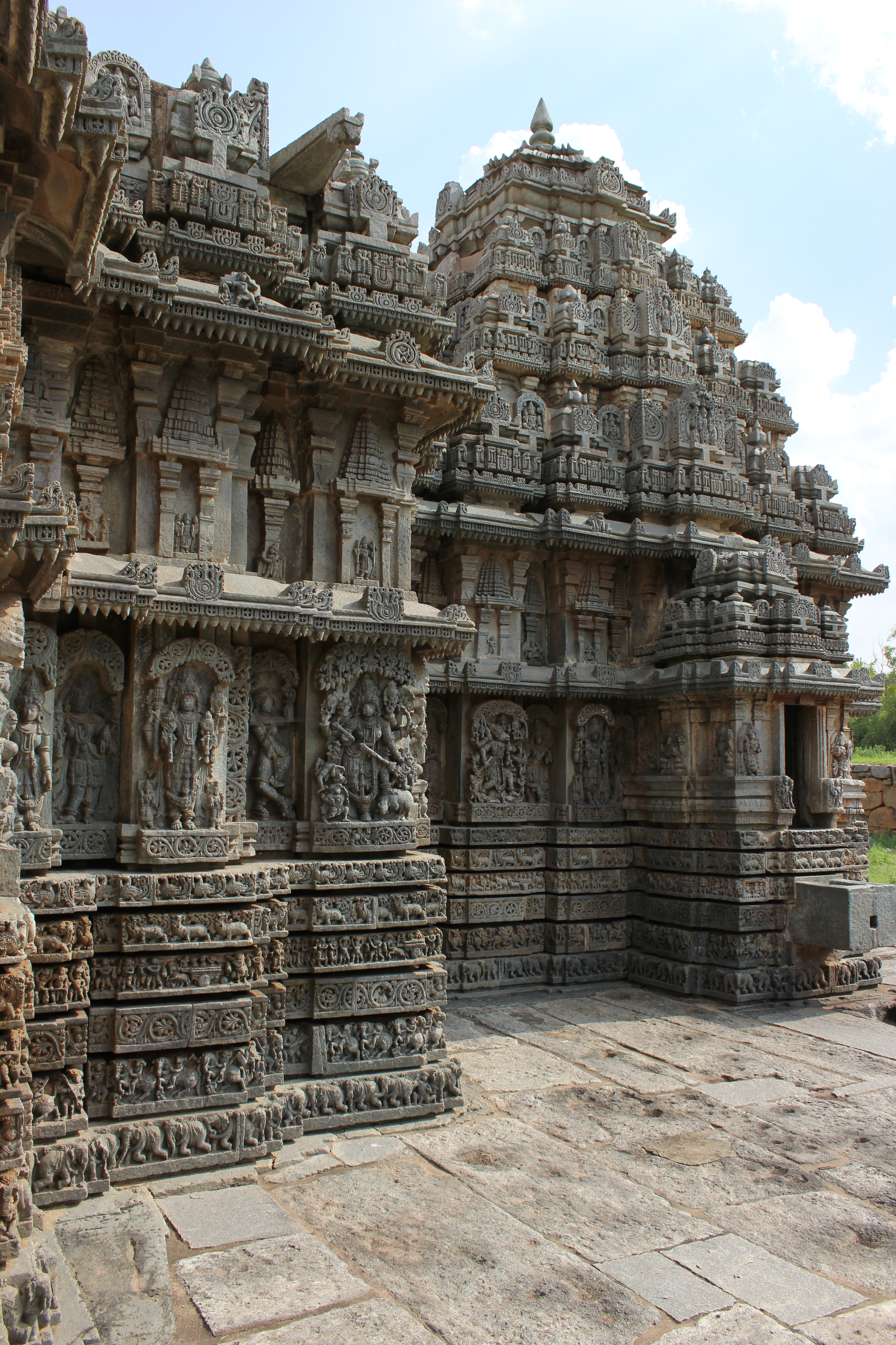 This photo was taken by me (Dinesh Kannambadi) at the Lakshmi Narasimha temple in Nuggehalli, Hassan district, Karnataka state, India. It was built in 1246 CE during the rule of the Hoysala Empire King Vira Someshwara.